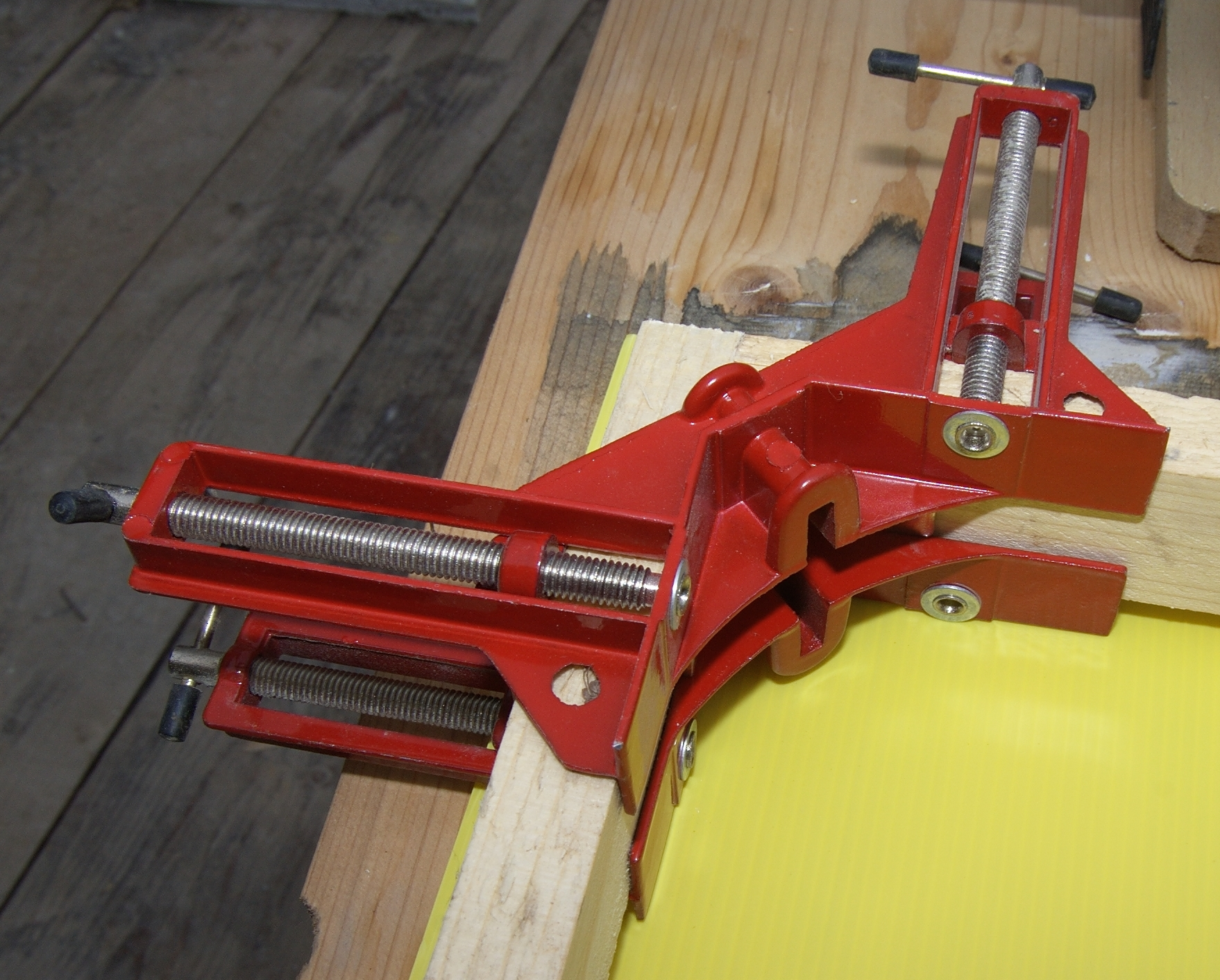 A couple of mitre clamps.